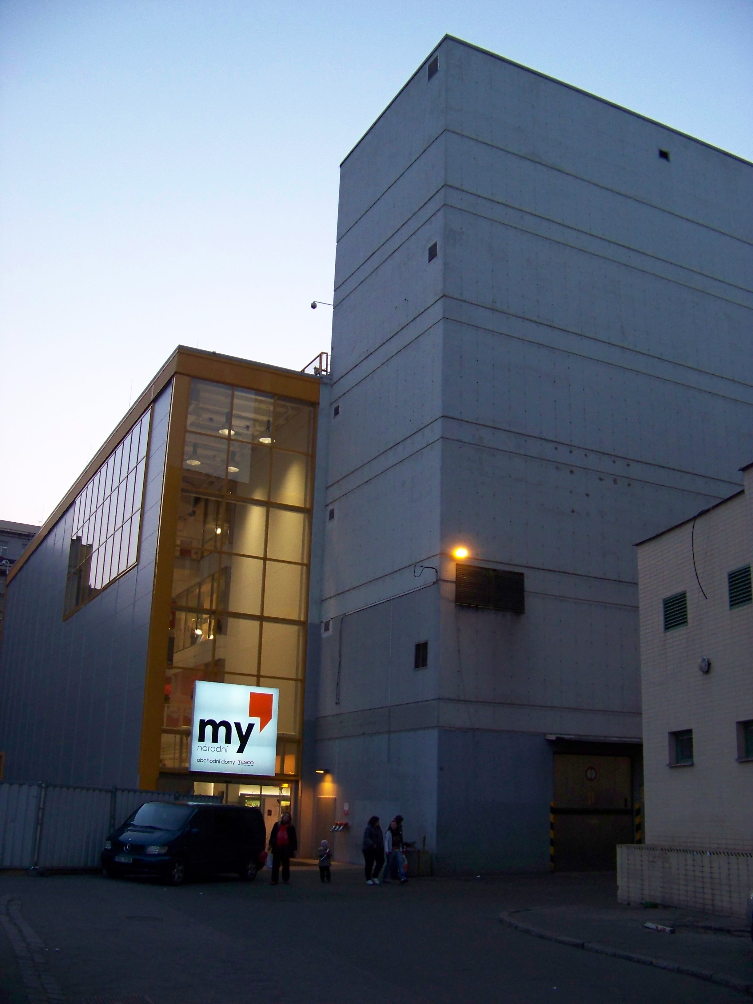 Prague-New Town, the Czech Republic. Charvátova street, "My" shopping center.